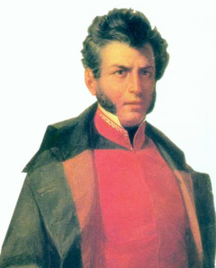 A full-length, cropped and edited picture of posthumous portrait of Vicente Guerrero by Ramón Sagredo, to be hanged at Iturbide Hall in the Mexican Imperial Palace.